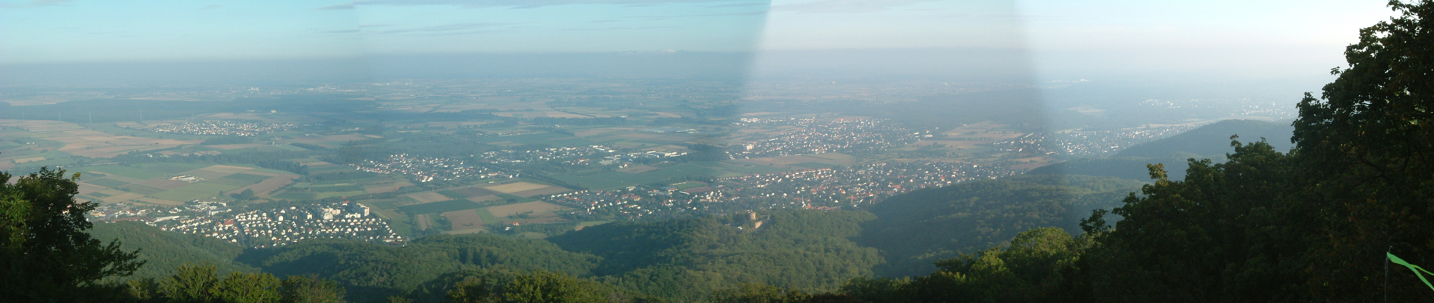 View from the summit of Melibokus, overlooking Zwingenberg, Alsbach, Bickenbach with Seeheim-Jugenheim on the right of the picture. Alsbach Castle is visible in the centre. Author: Phil Nolan